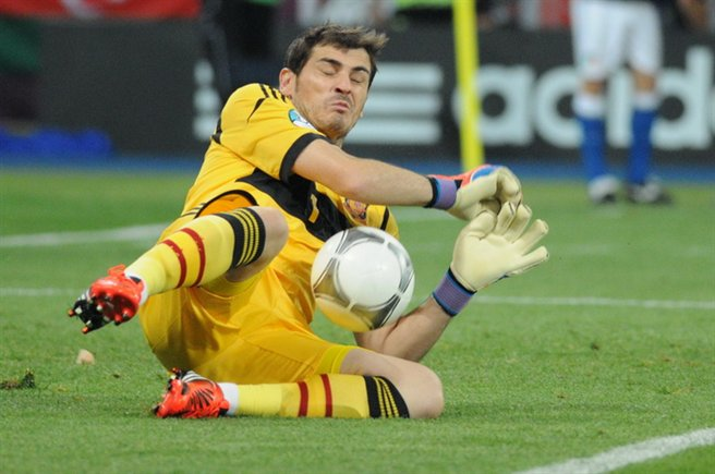 Iker Casillas at Euro 2012 final Spain-Italy